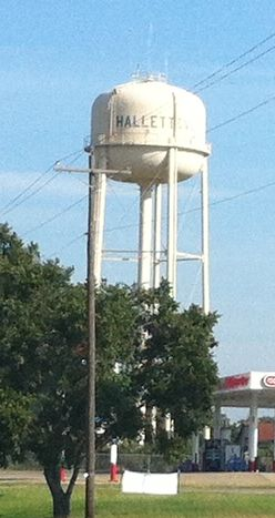 Water tower in Hallettsville, Texas